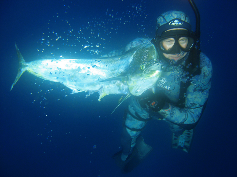 Spearfishing doradomahi mahipaddy hopblue waterfreediving